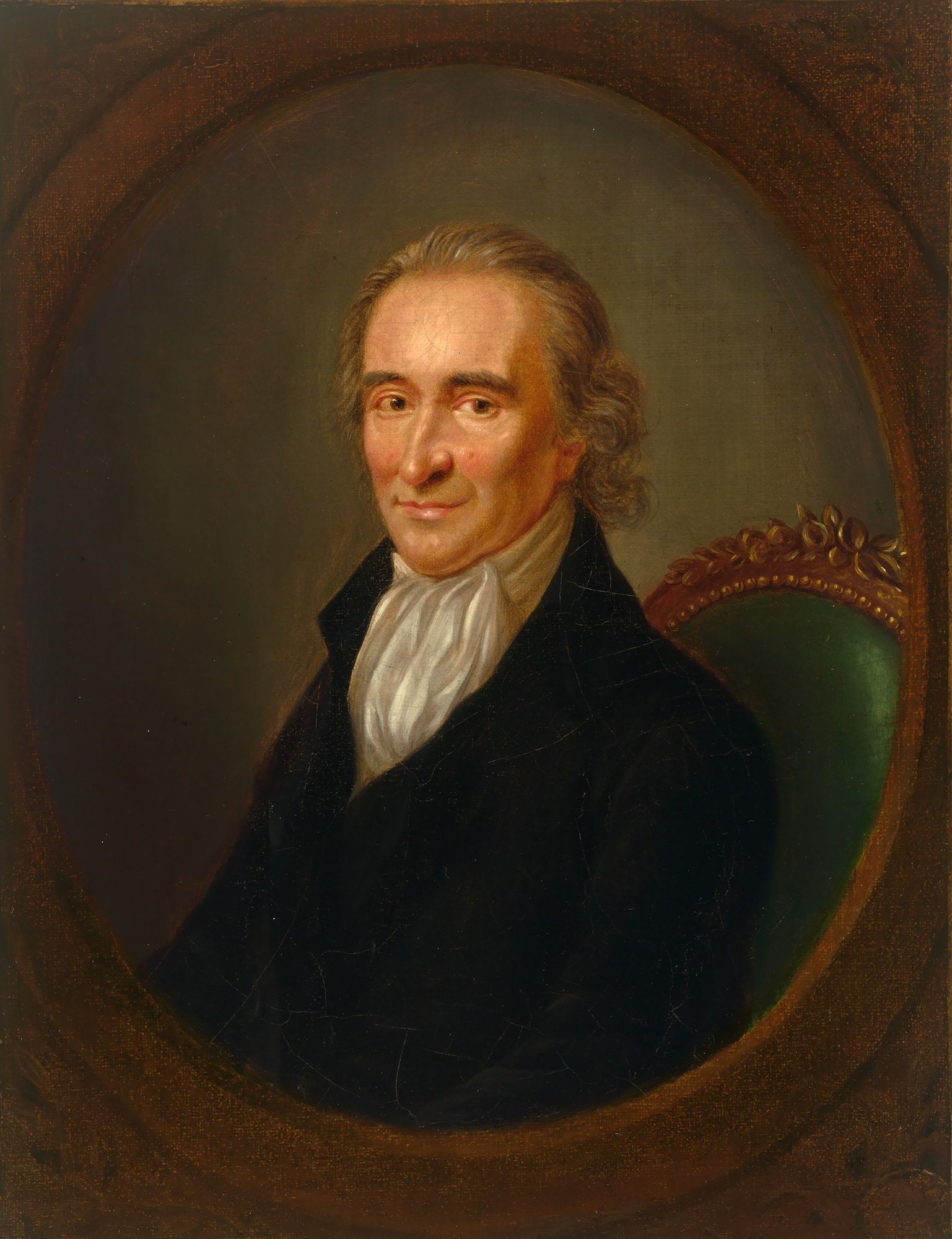 portrait of Thomas Paine by Laurent Dabos for the purpose of engraving.